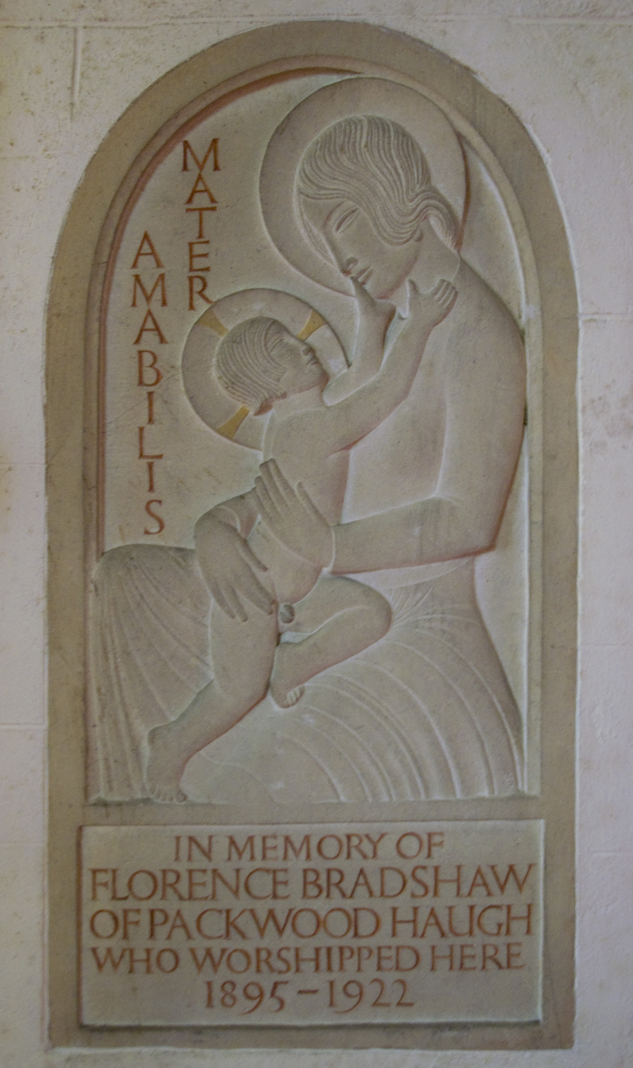 Bas relief carving by Eric Gill, 1928 in the parish church of Lapworth, Warwickshire, England.